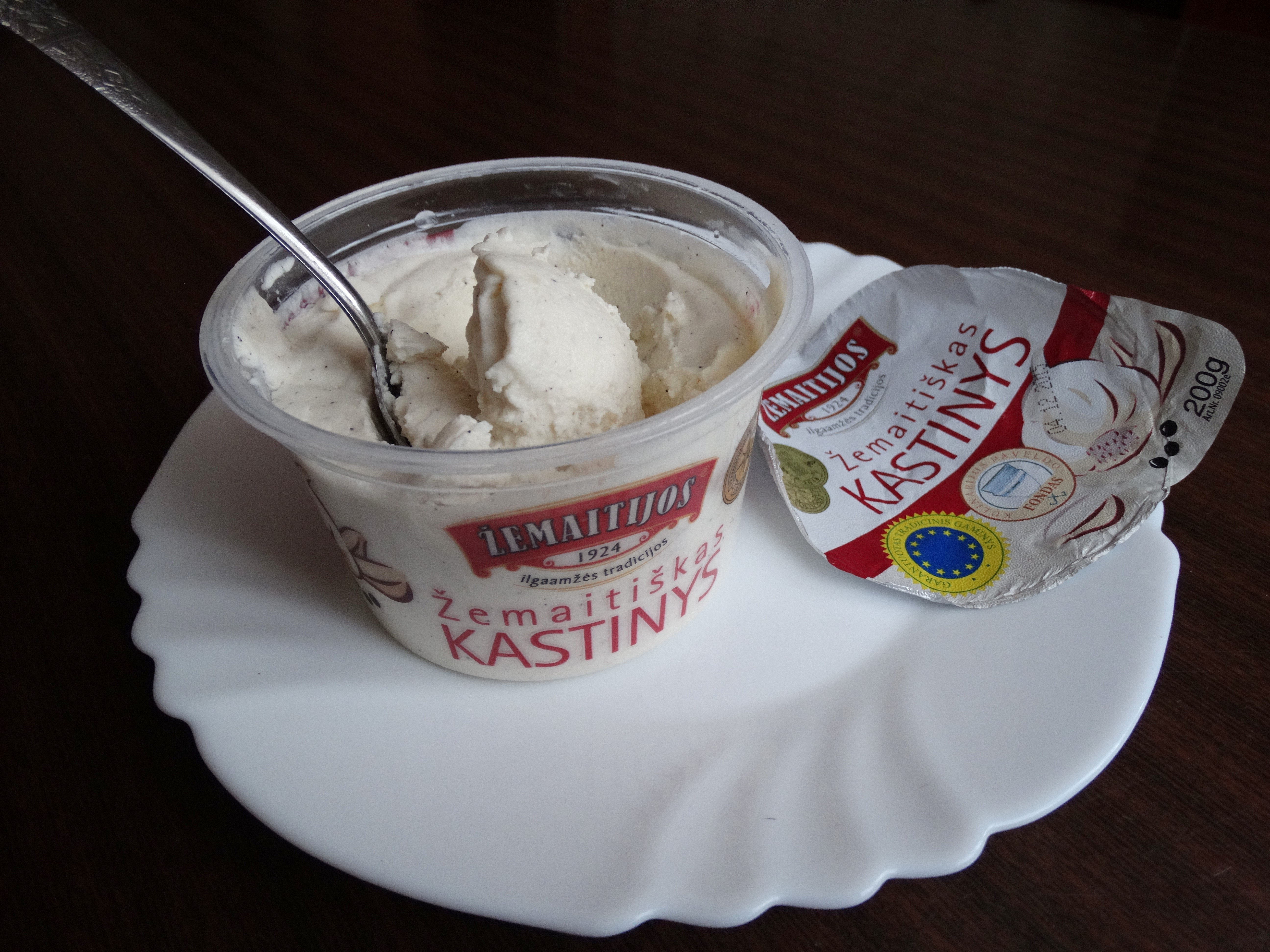 Traditional Lithuanian food: žemaitiškas kastinys (from Samogitia)